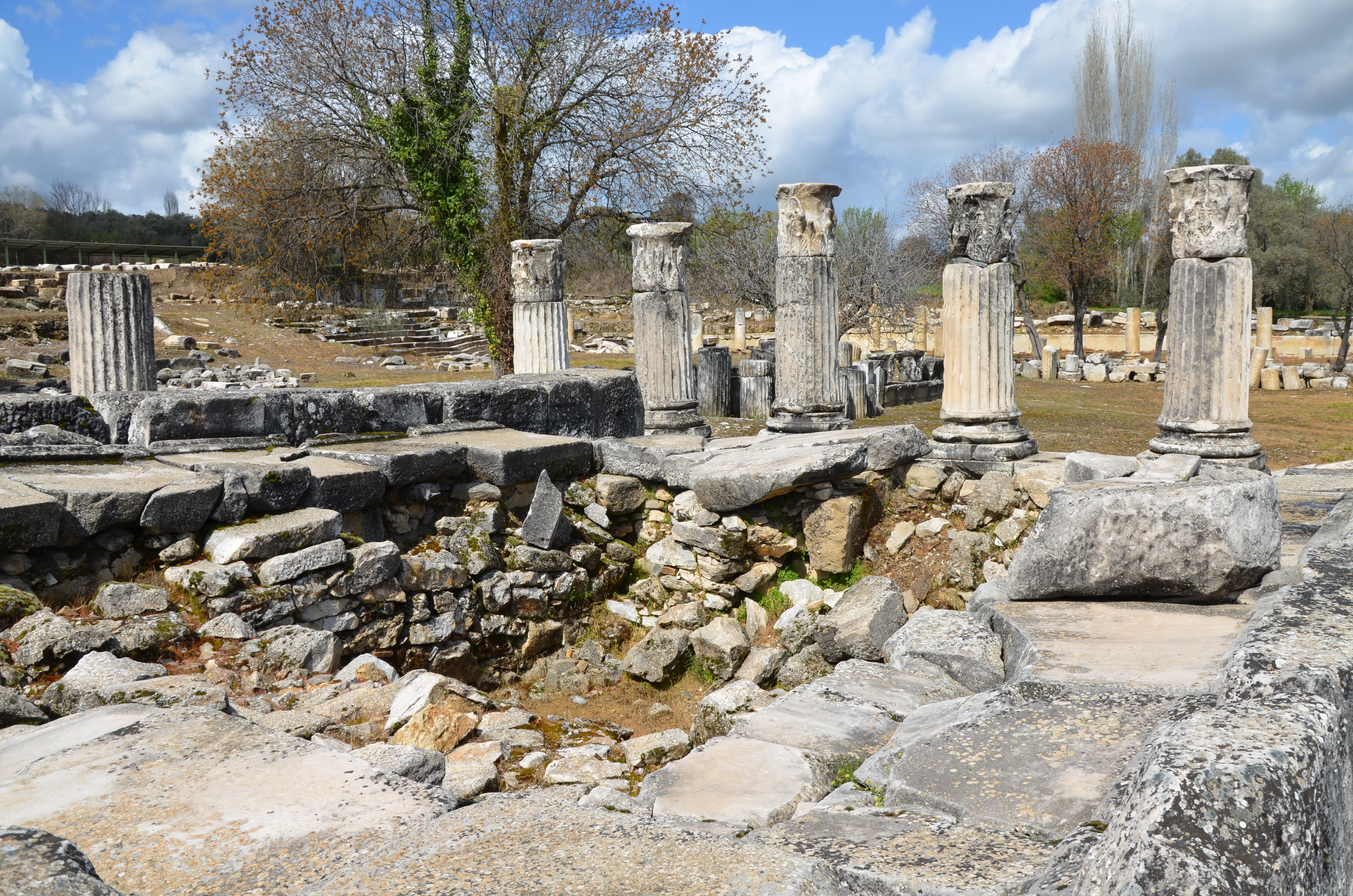 The Sanctuary of Hecate in Lagina, Caria, Turkey